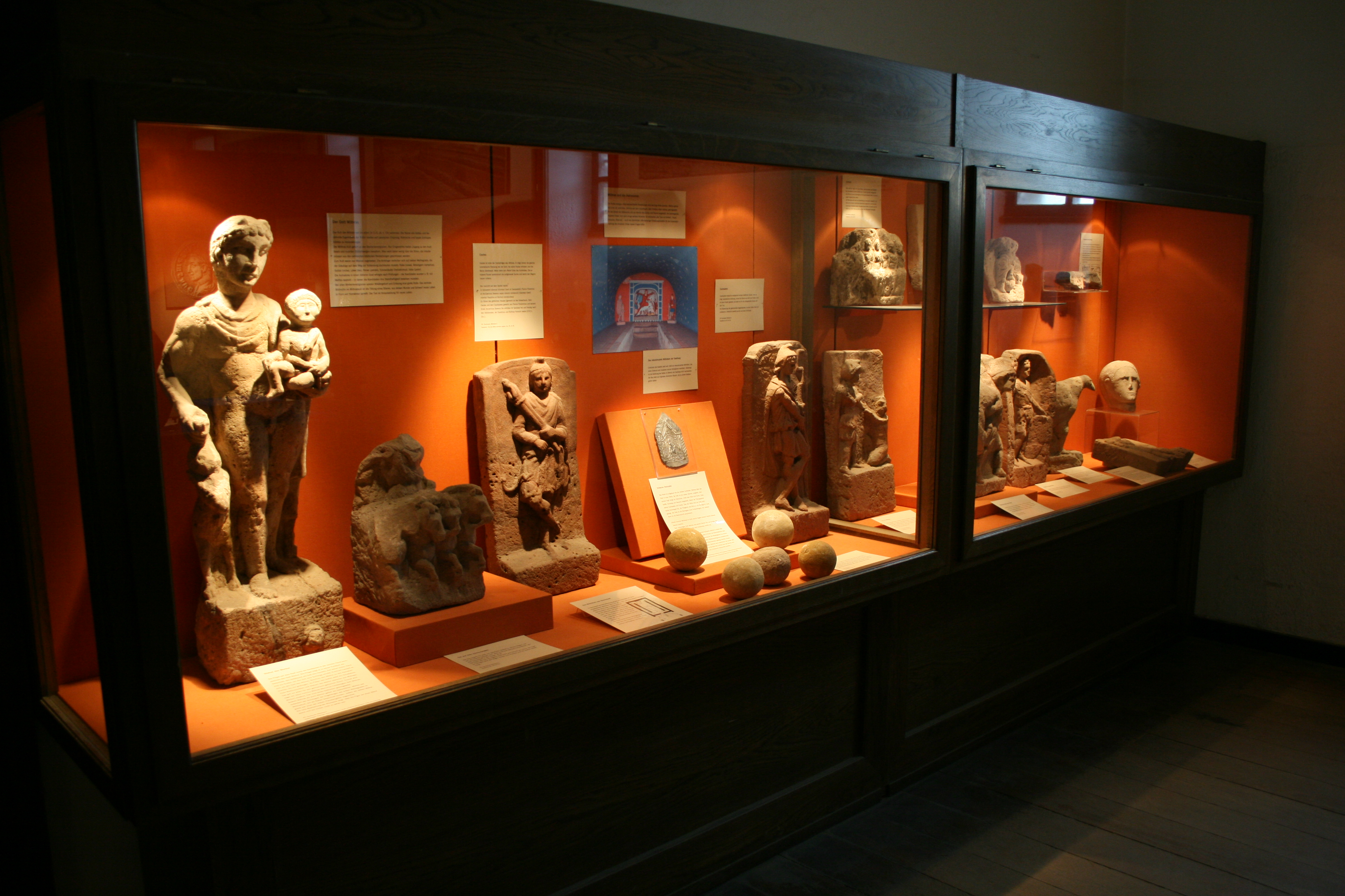 inventory of a mithraeum in Stockstadt, Germany, shown in Saalburgmuseum Bad Homburg